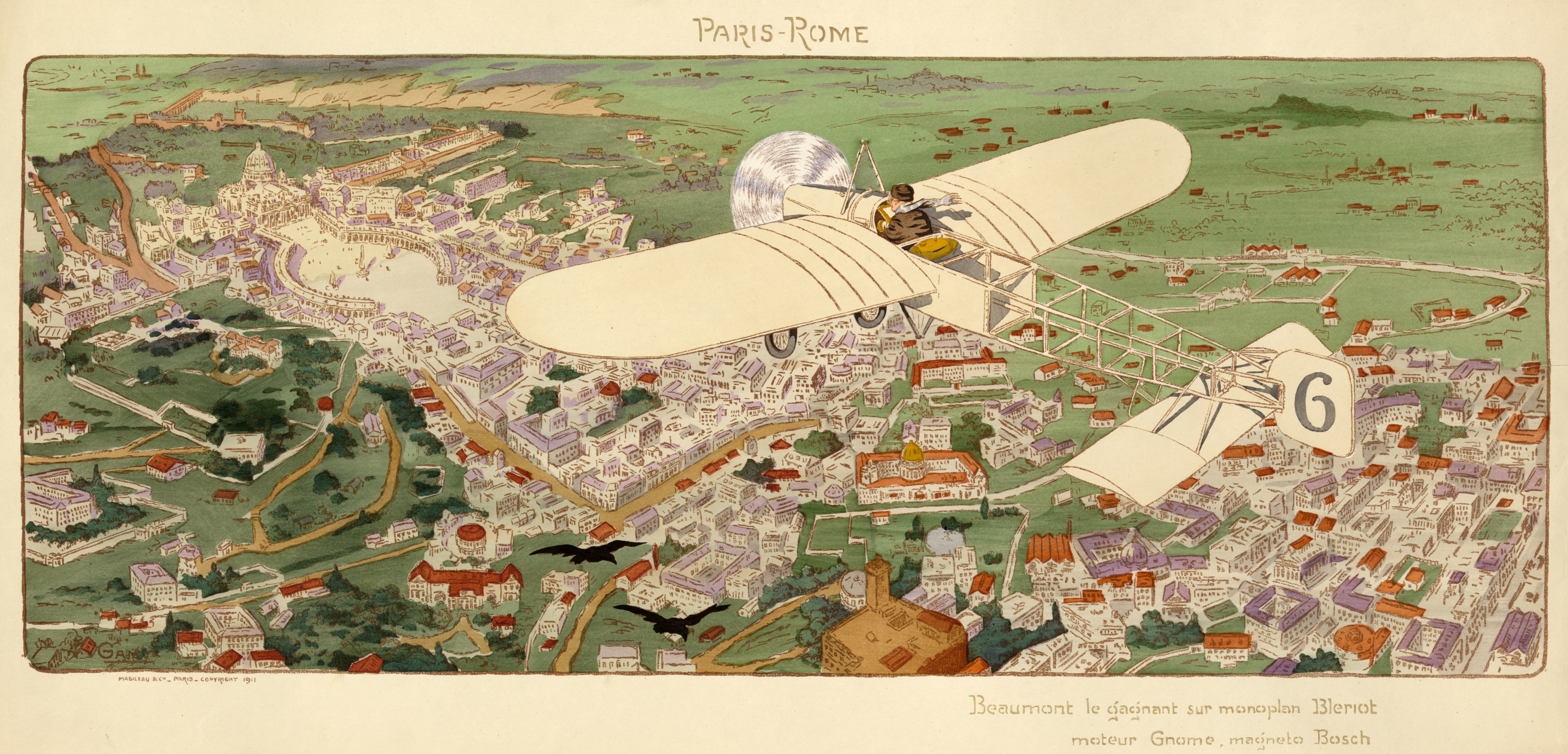 Paris–Rome. Beaumont le gagnant sur monoplan Blériot, moteur Gnome, magneto Bosch. (Beaumont the winner in Bleriot monoplane, Gnome engine, Bosch magneto.) Pochoir shows bird's-eye view of Beaumont's plane arriving in Rome during the Paris–Rome air race.